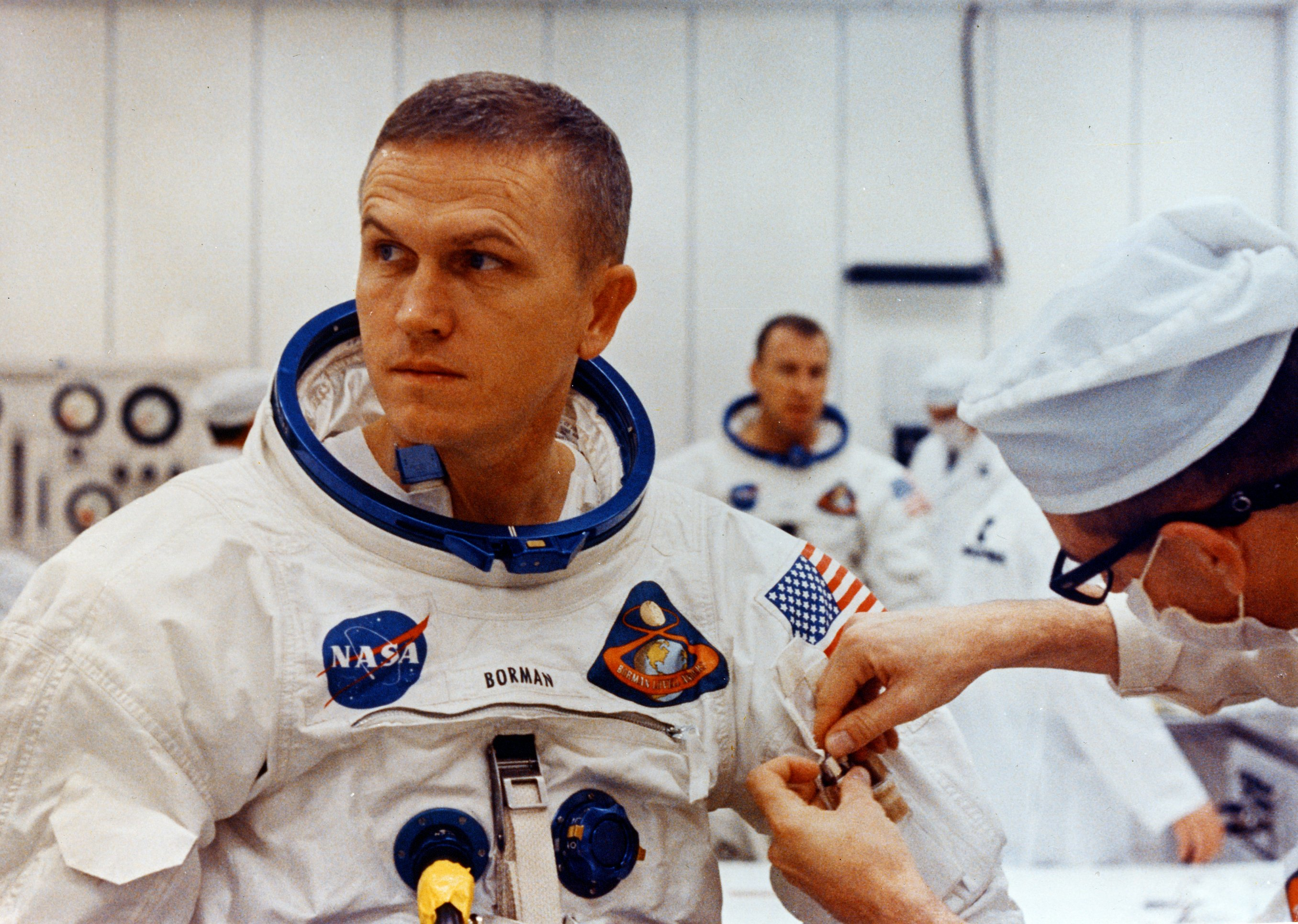 Frank Borman suiting up on launch day